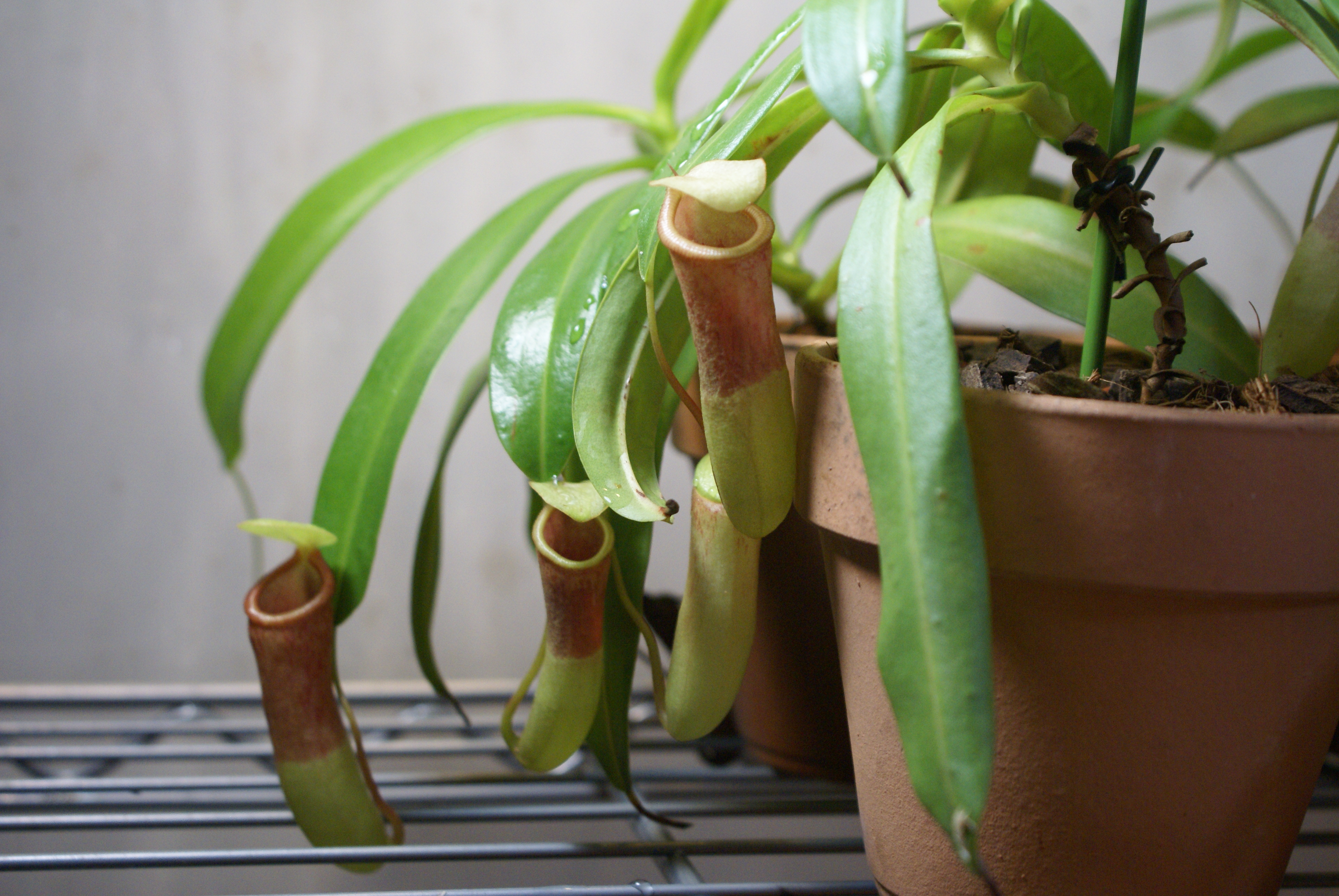 Nepenthes ventricosa